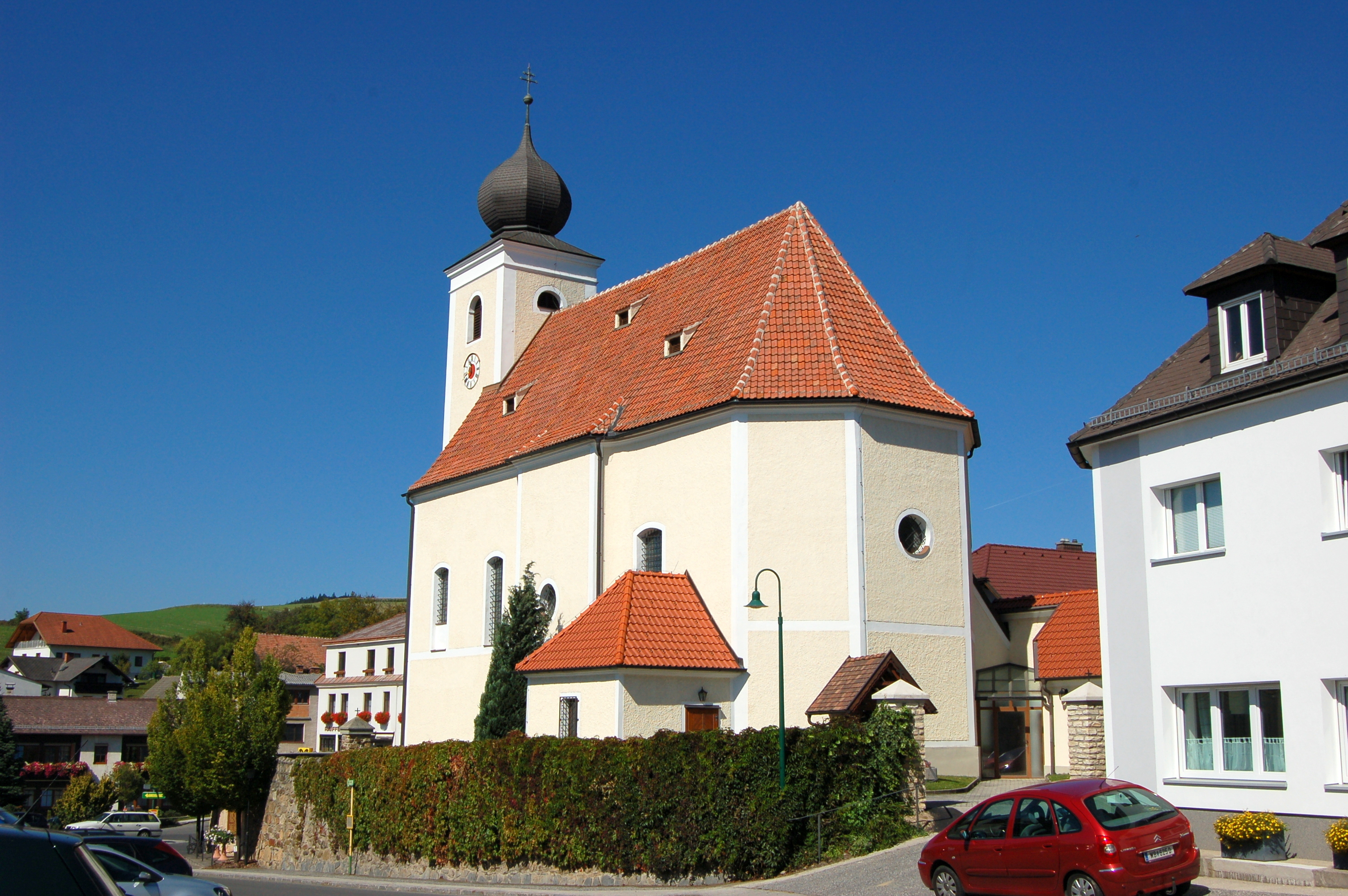 Assumption of Mary parish church in Hollenthon, Lower Austria